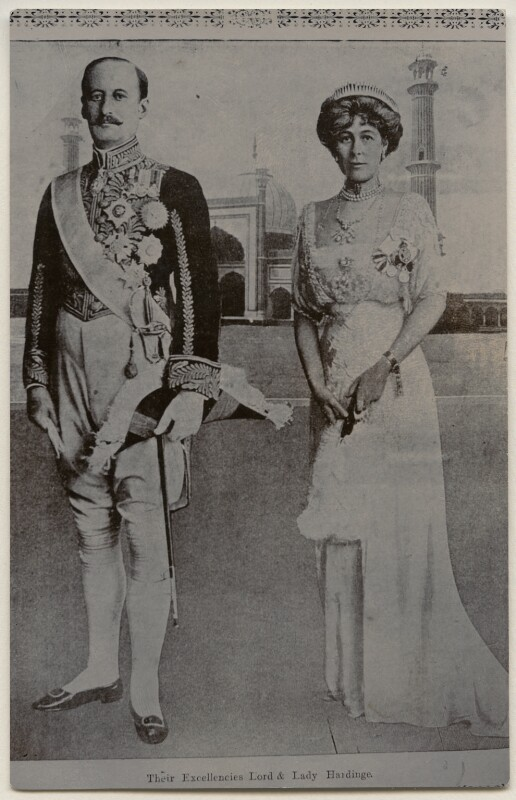 Charles Hardinge, 1st Baron Hardinge of Penshurst, and his wife Winifred during his term as Viceroy of India, ca. 1910-1916.